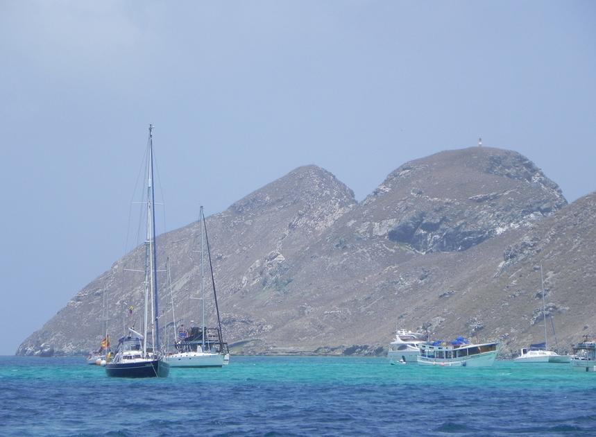 Mountains in Los Roques Venezuela